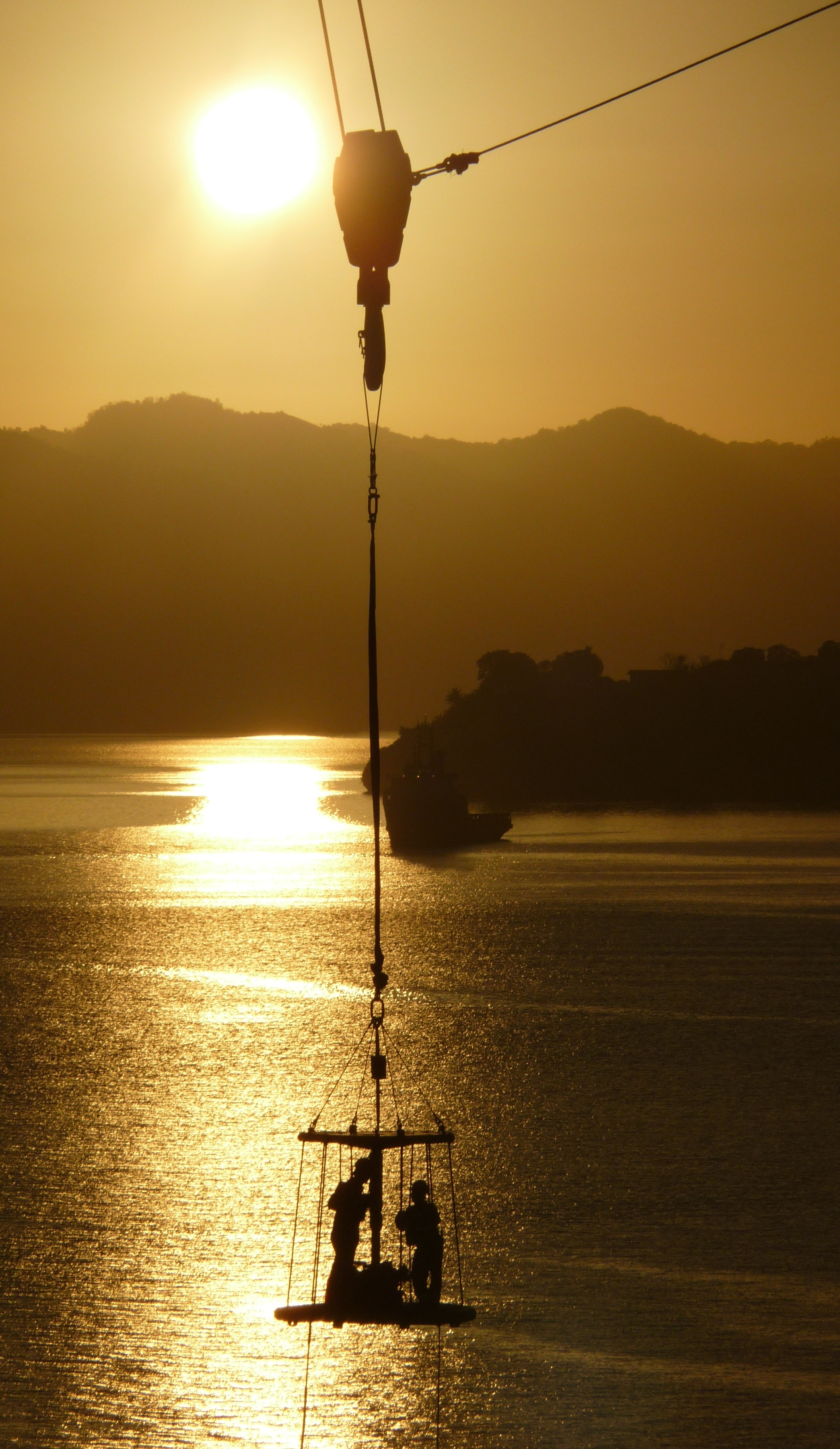 Crew basket transfer on the Balder off Trinidad